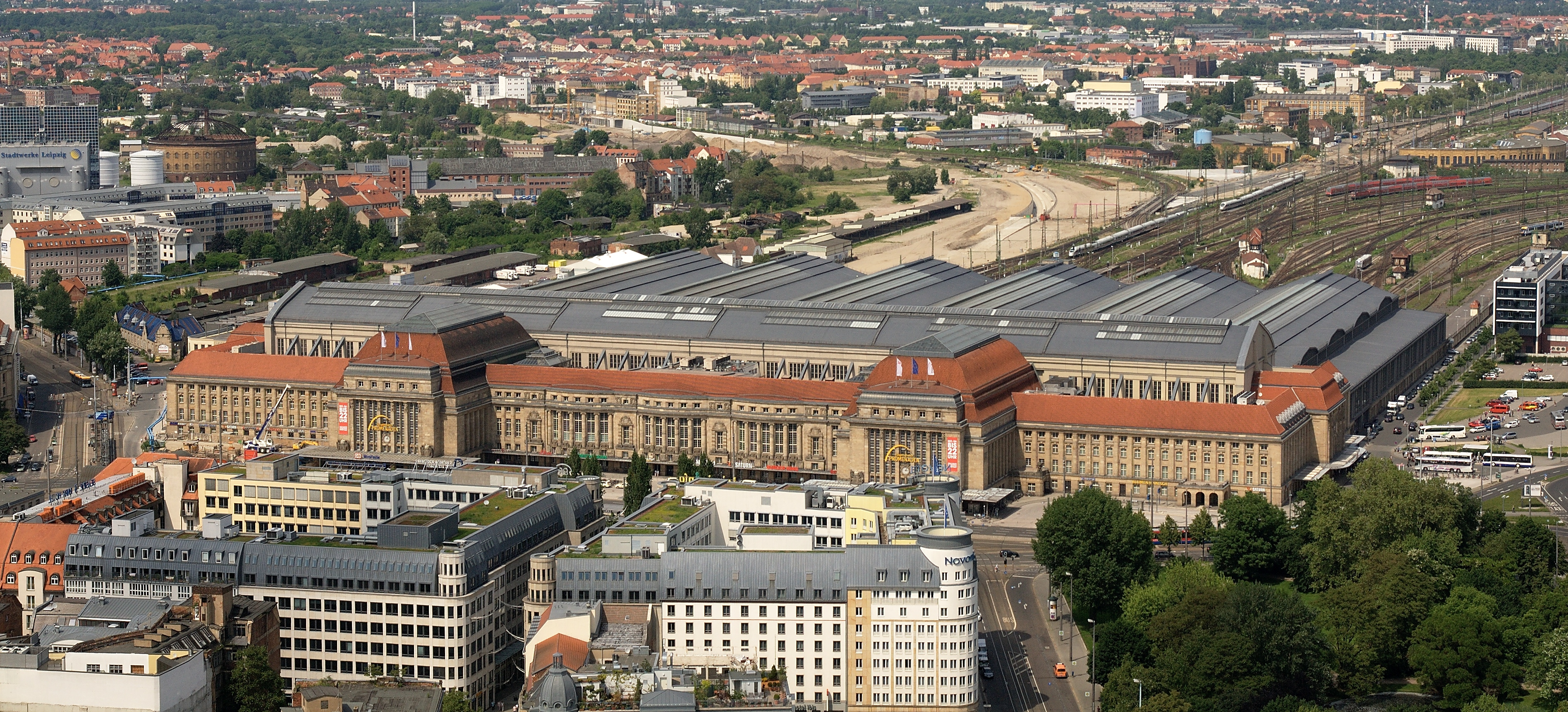 Leipzig Main Station.